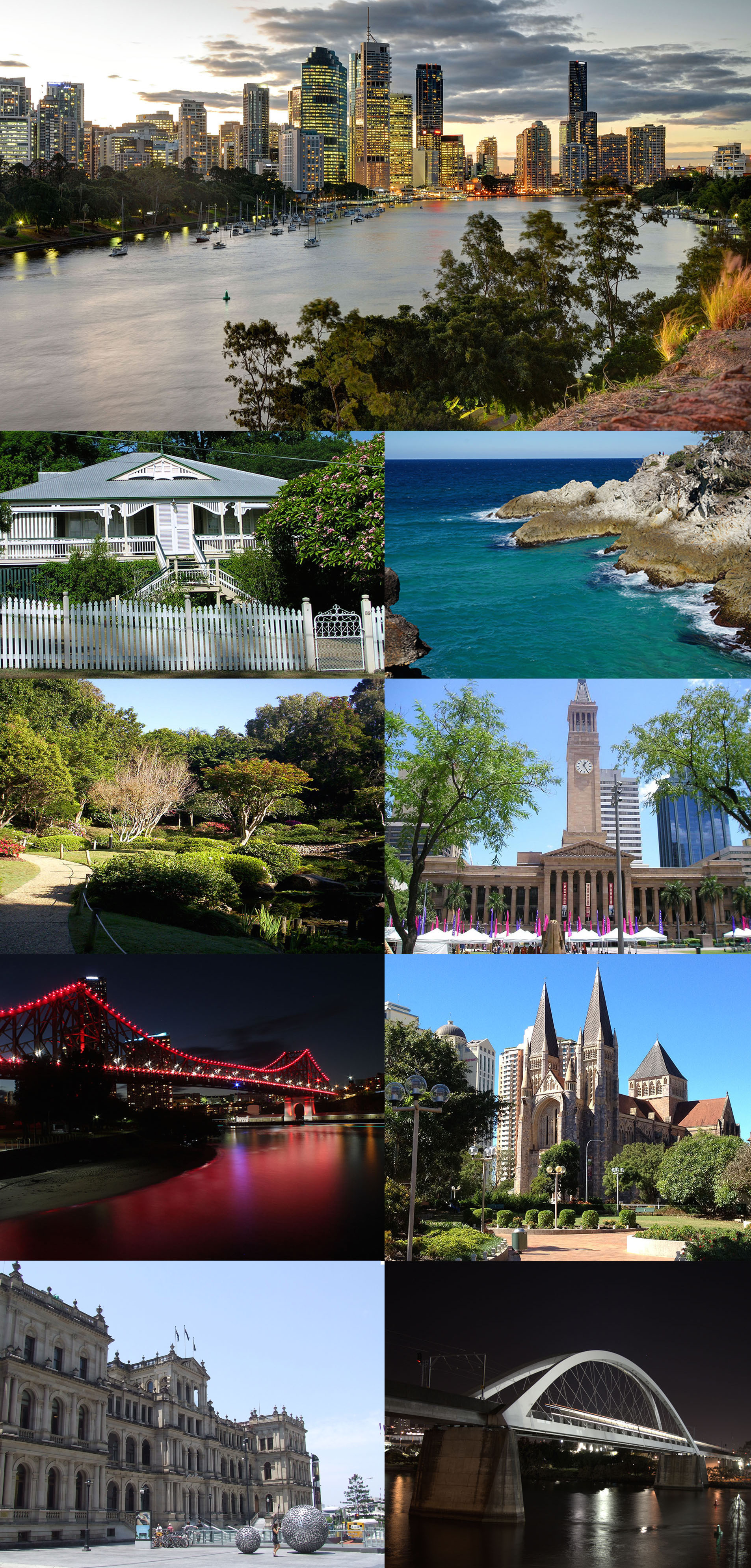 File:Brisbane May 2013.jpg File:Queenslander home, Australia.jpg File:Gorge Walk North Stradbroke Island.JPG File:05 - Japanese-Garden-flora.JPG File:Brisbane City Hall.jpg File:Story Bridge by night.jpg File:Merivale_Bridge_Night.jpg File:View St John's Cathedral, Brisbane 052013.jpg File:Treasury Casino, Brisbane, QLD.JPG